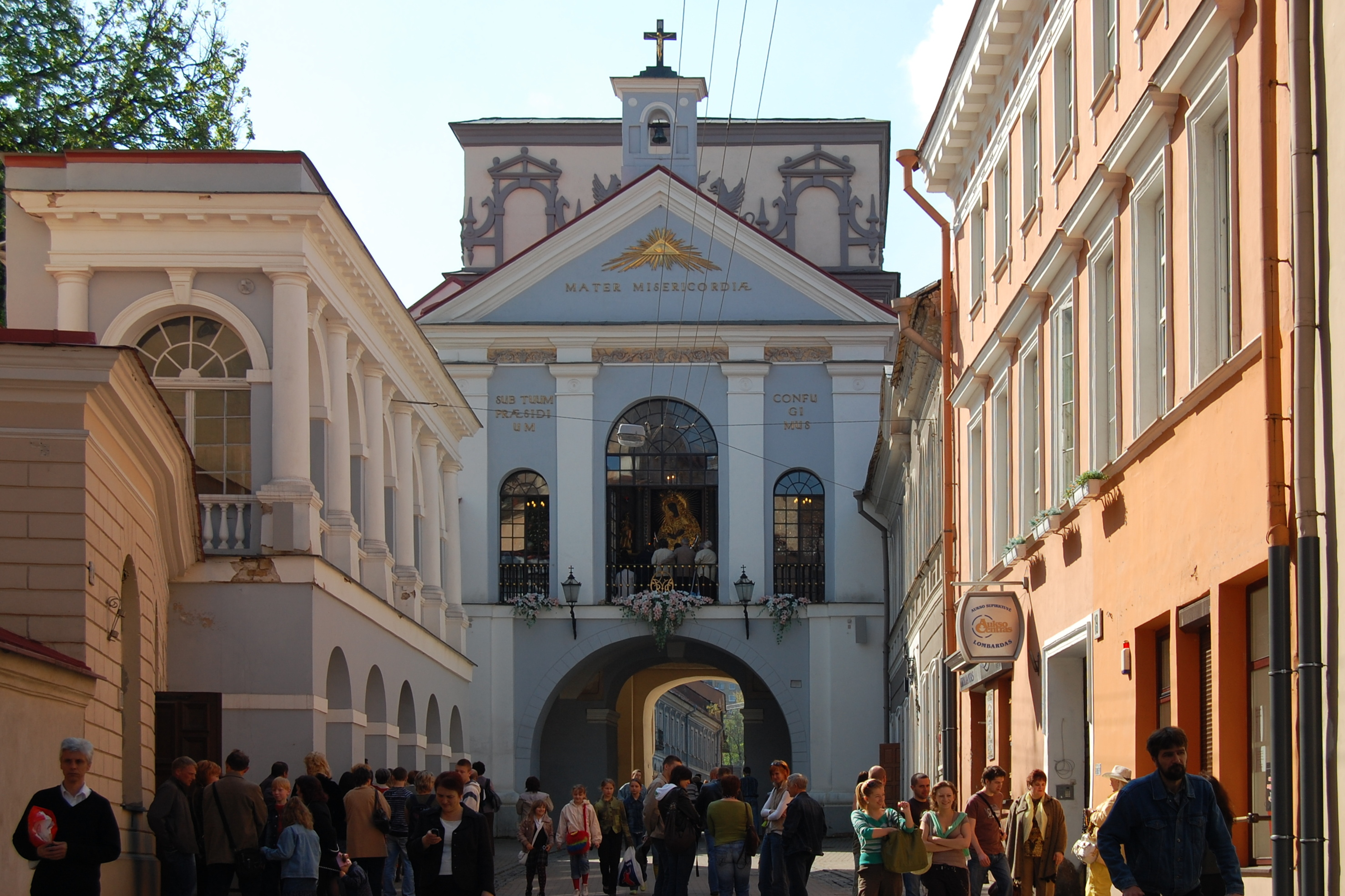 Dawn Gate , Vilnius, Lithuania